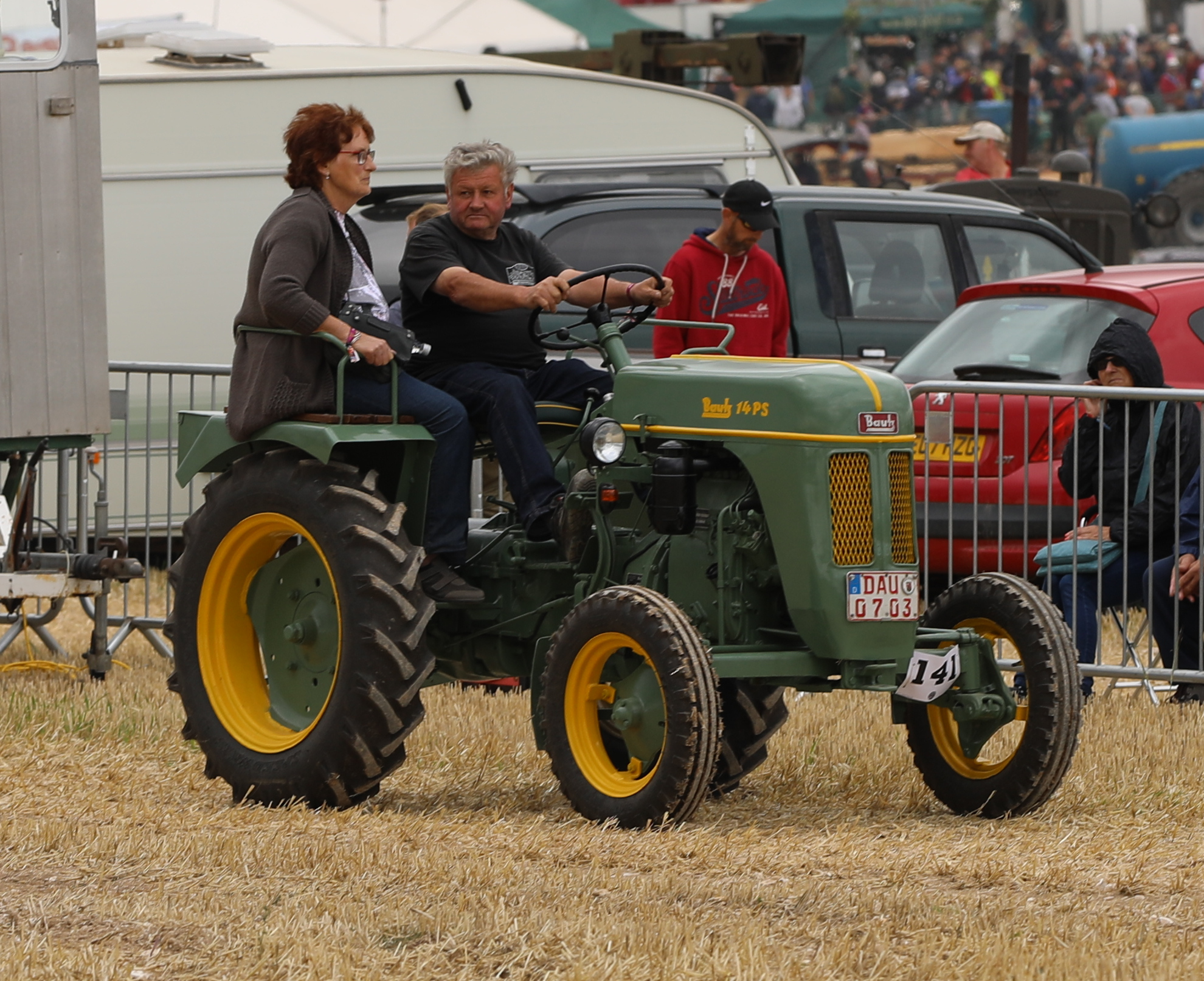 Photo of a 1954 Bautz AS120 tractor. 2018 GDSF program number 141